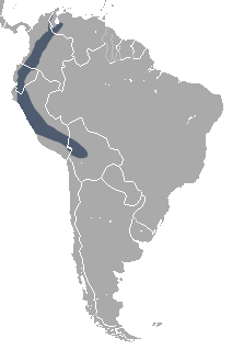 Didelphis pernigra range